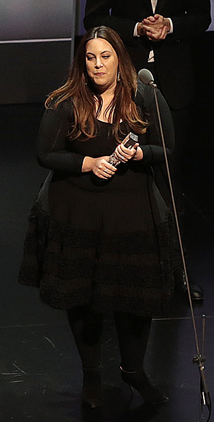 New Establishment Designer: A British womenswear or menswear designer that is taking the global industry by storm. WINNER: Mary Katrantzou Presented by Elisa Sednaoui